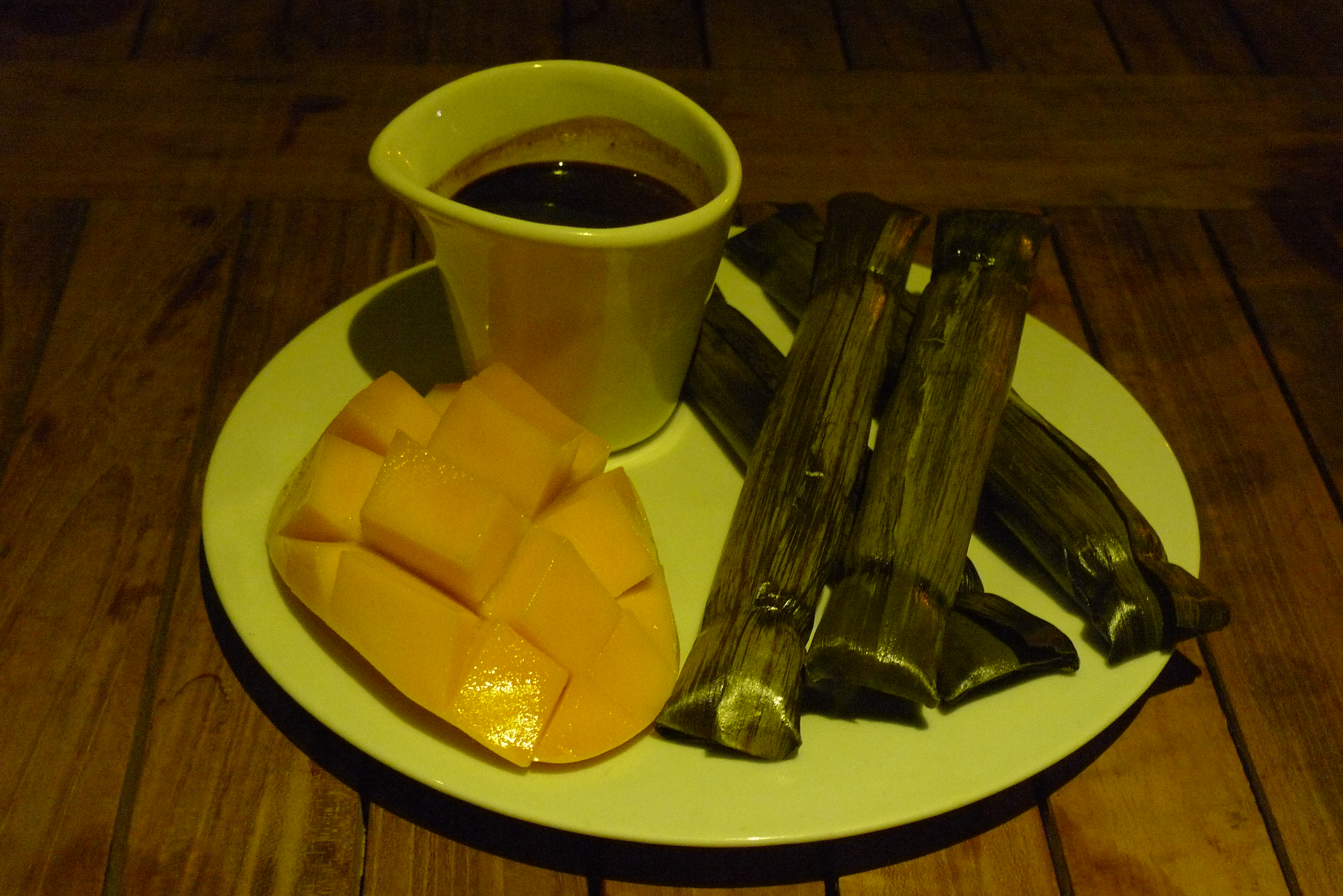 Suman, carabao mango, and tsokolate (hot chocolate) from Dumaguete, Philippines